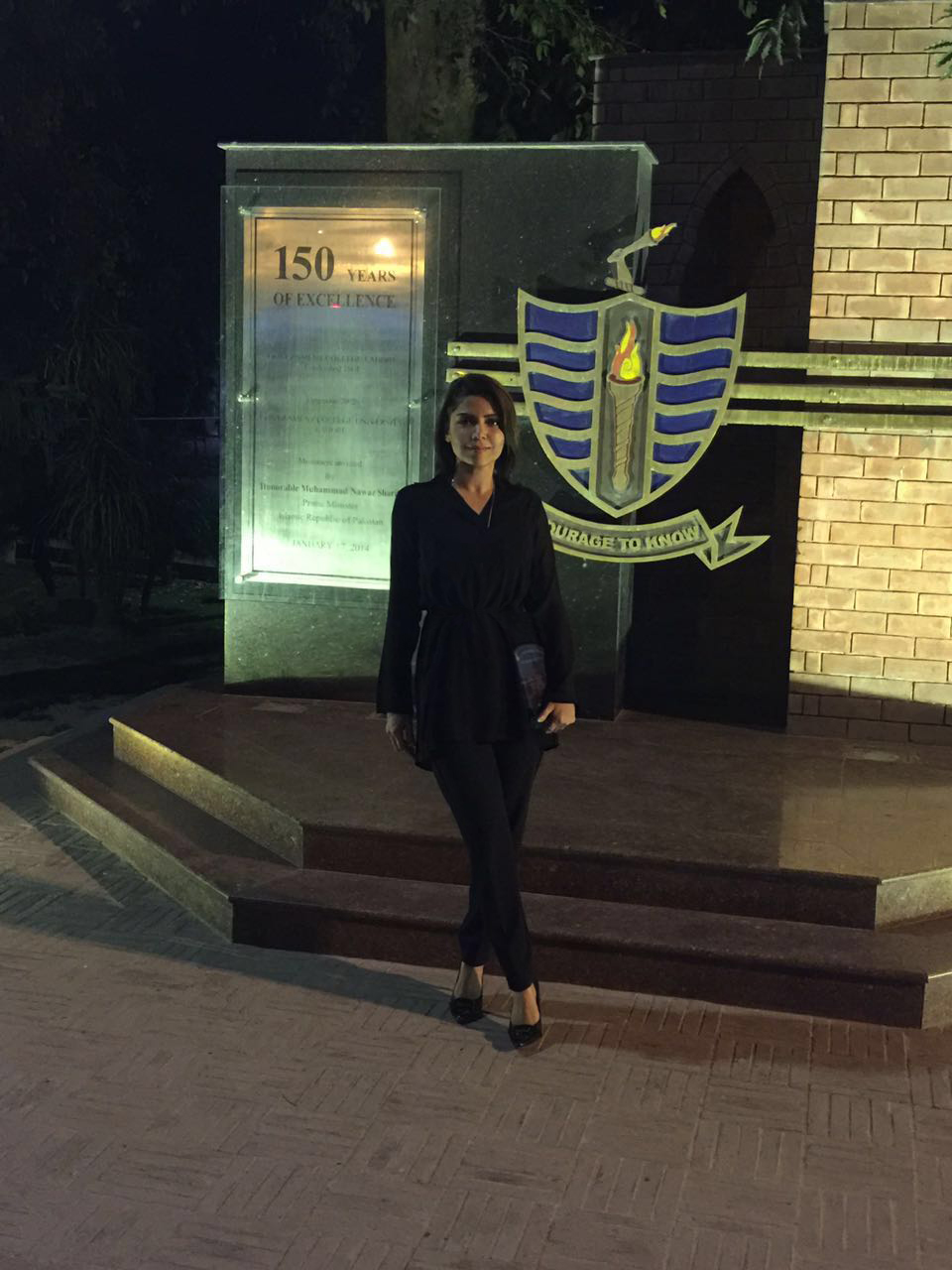 Hadiqa attending the anniversary of Government College Lahore in 2016, where she was honored for being one of the highest achieving alumni of the historic university.